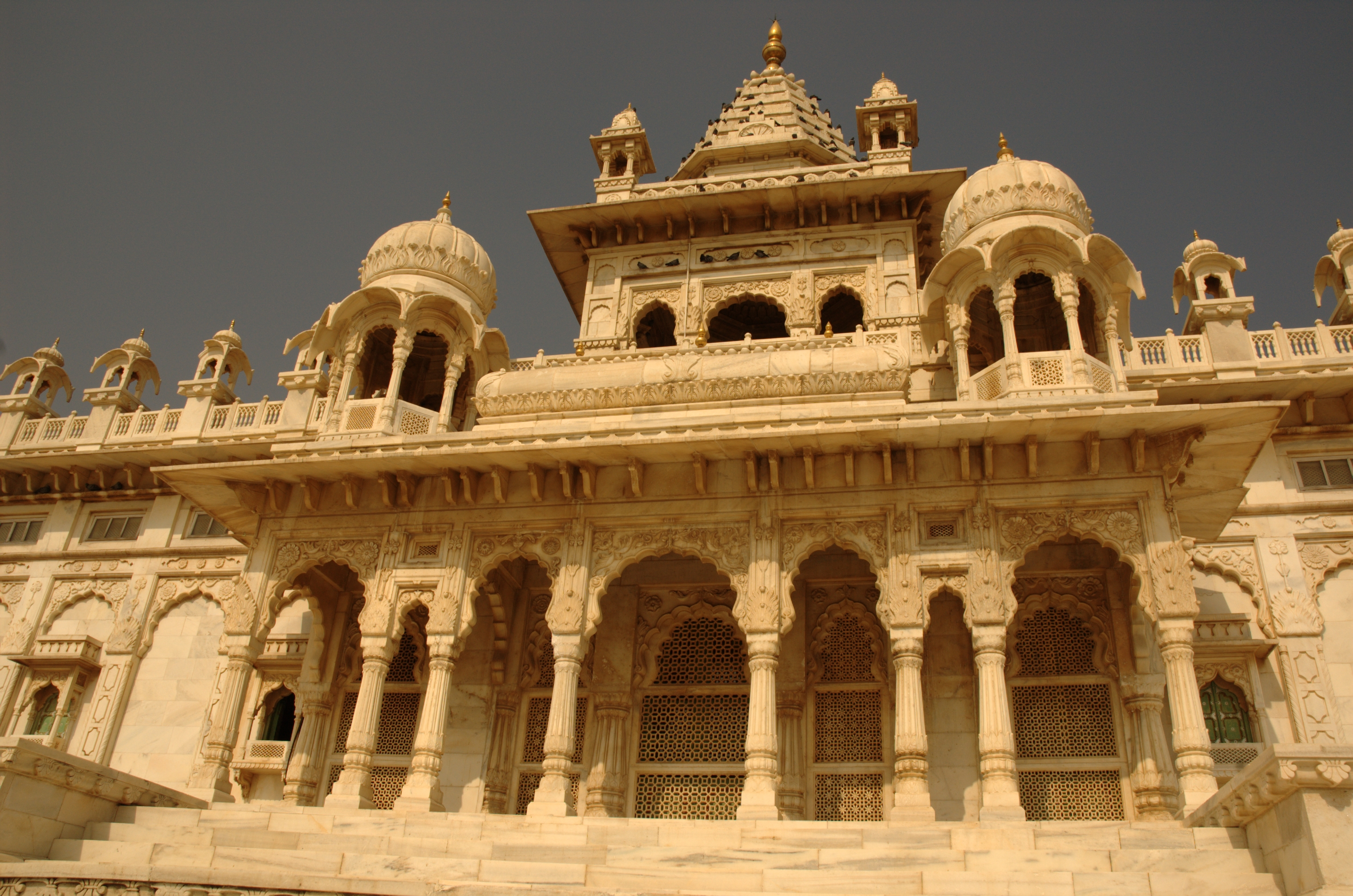 Jaswant Thada